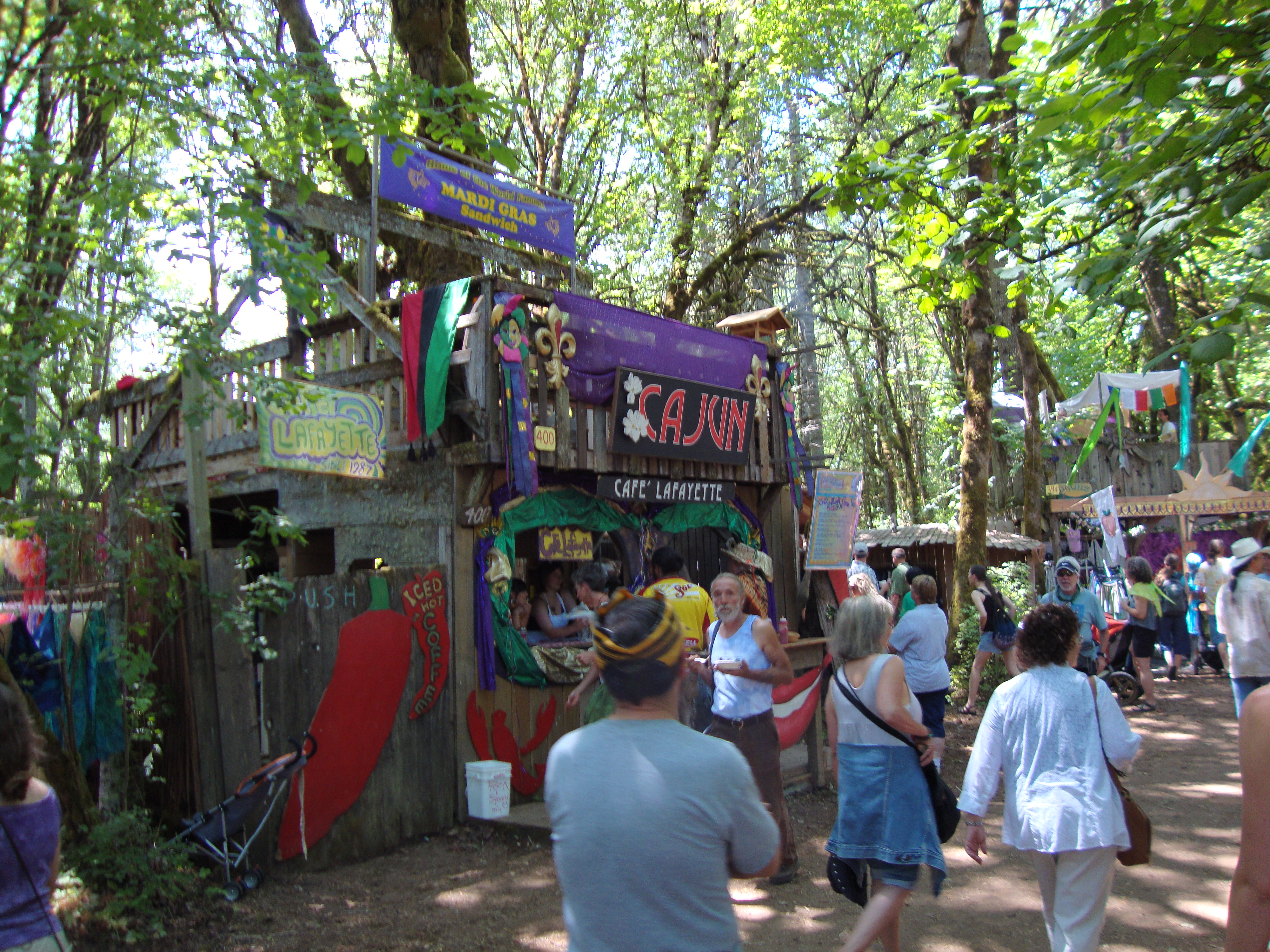 Food booths, Oregon Country Fair 2009